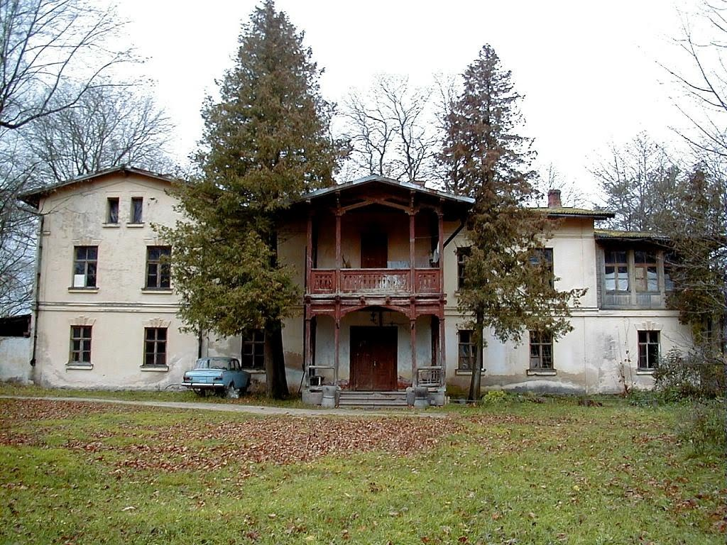 Groß-Born manor